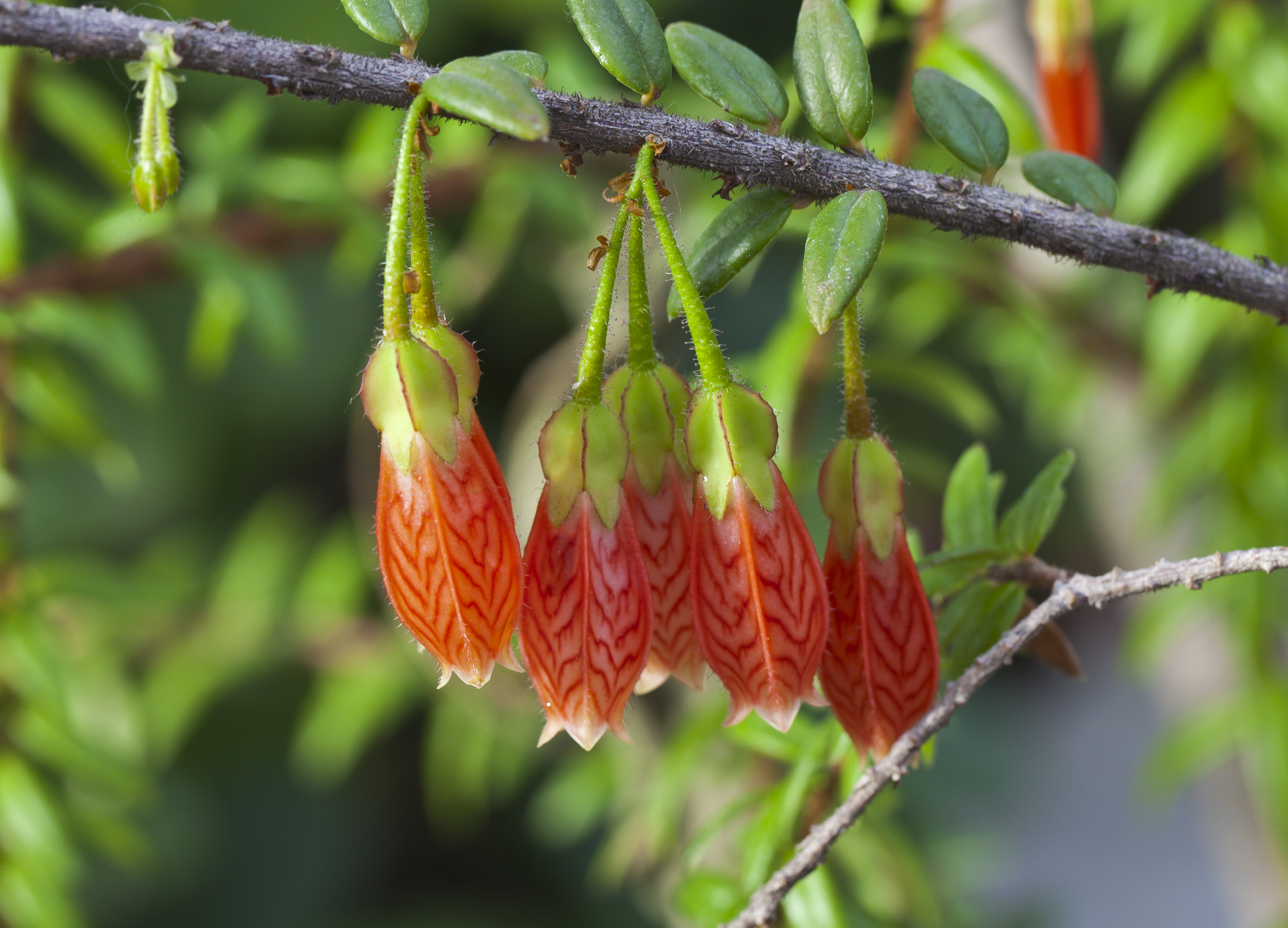 Agapetes serpens, Jardín Botánico de Múnich, Alemania